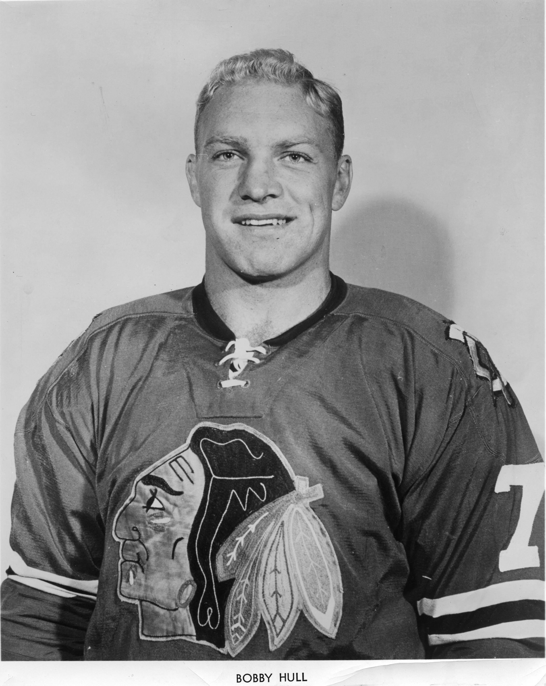 Bobby Hull, hockey player for the Chicago Blackhawks, originally from Point Anne, Ontario.